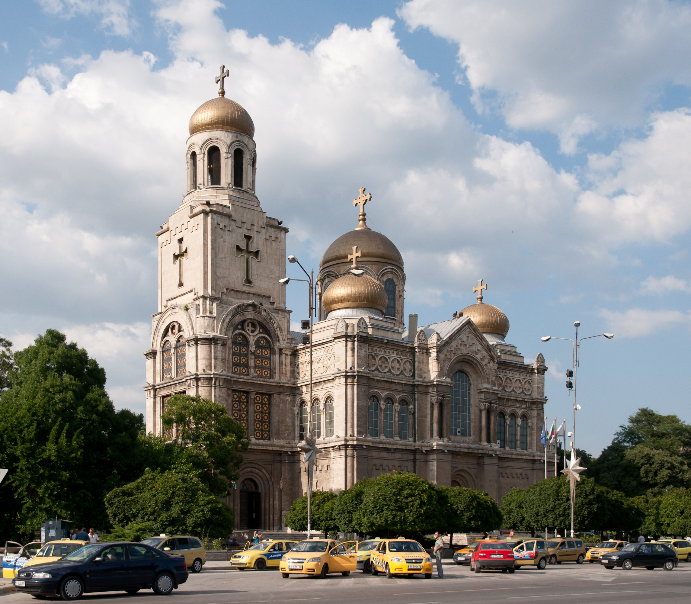 Dormition of the Theotokos Cathedral in Varna, Bulgaria.